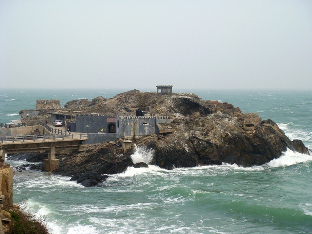 Caipuao stronghold, Xiju.